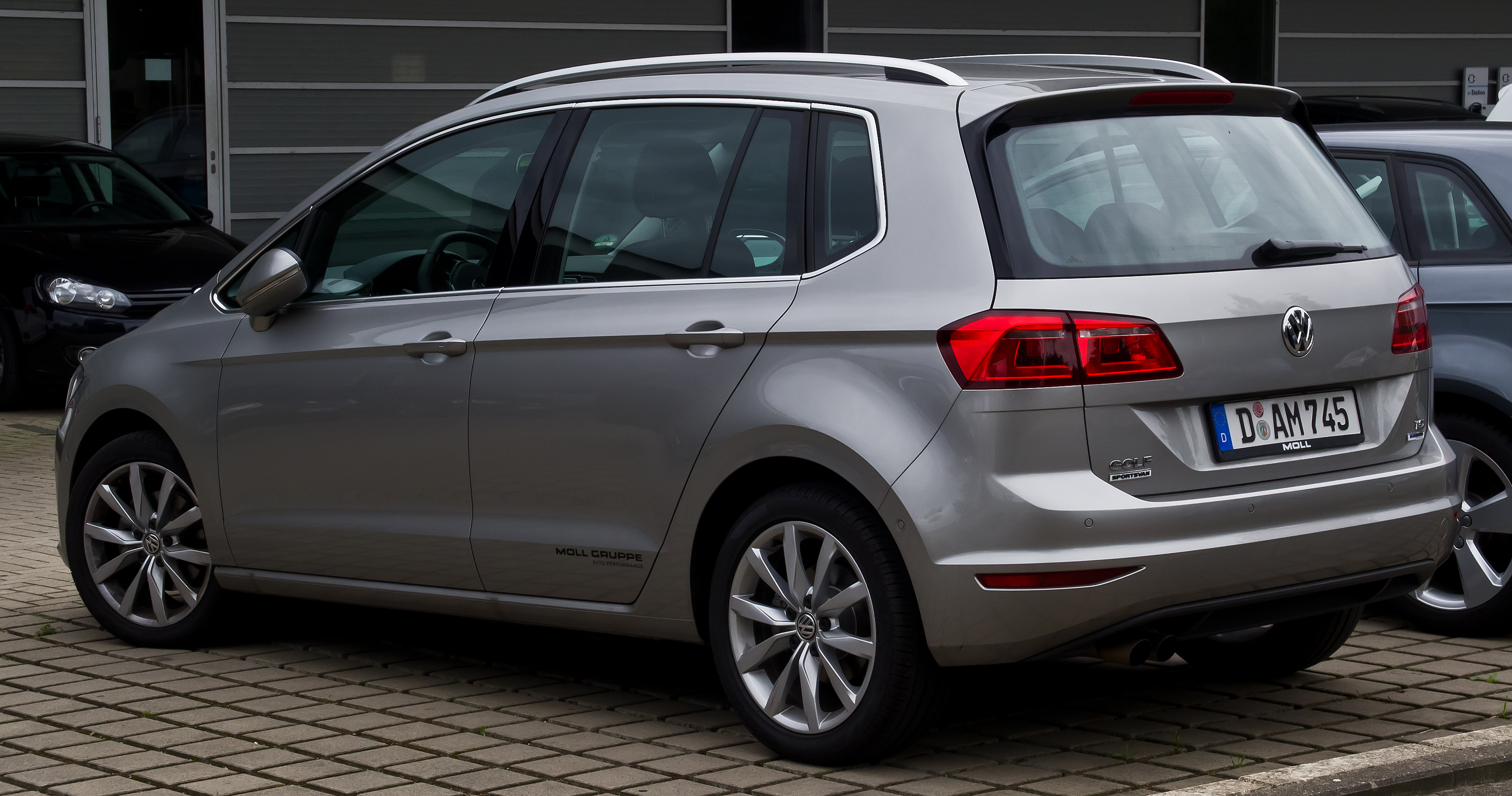 VW Golf Sportsvan 1.4 TSI BlueMotion Technology Highline